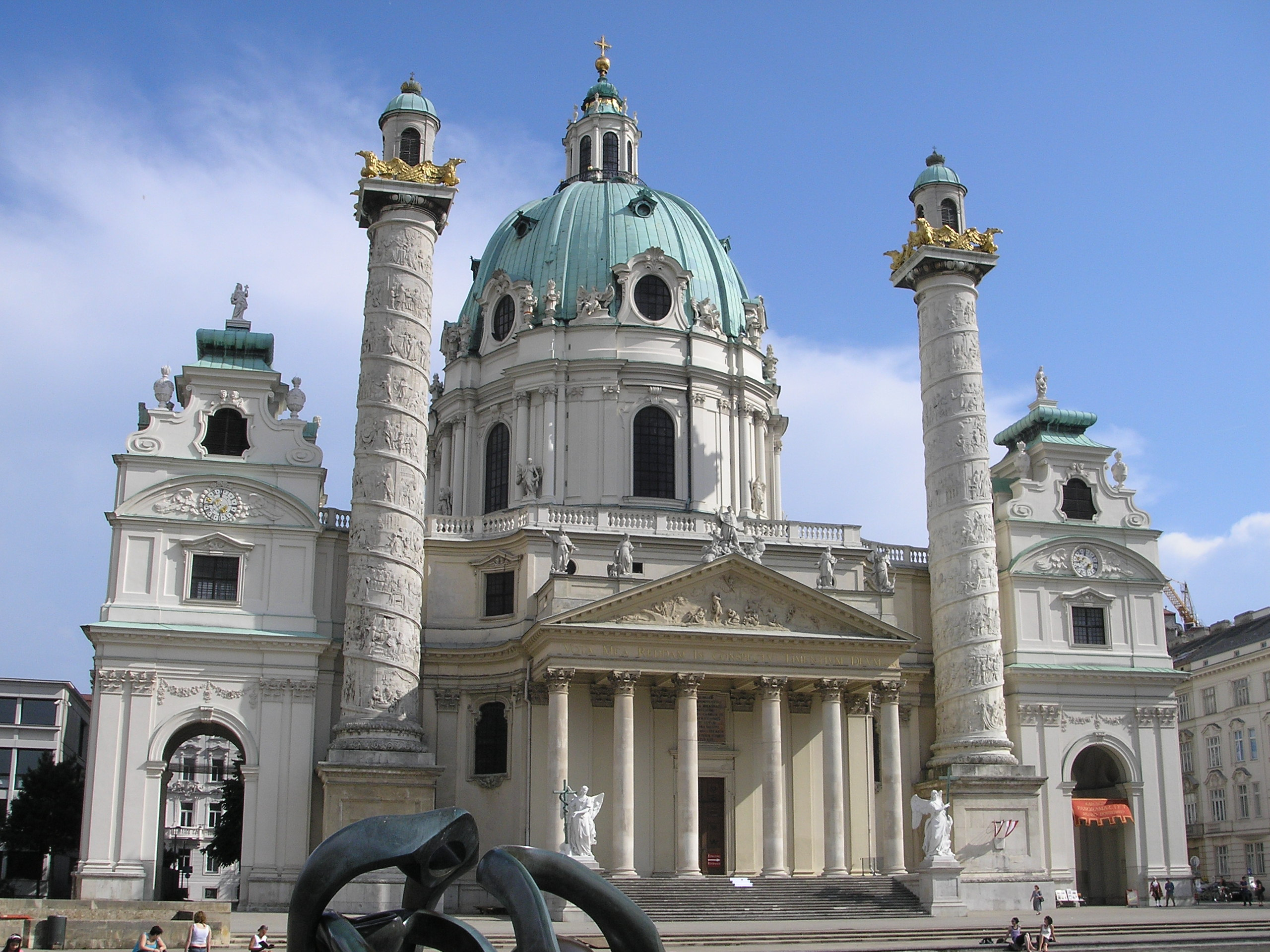 Austria, Vienna, St. Charles's Church